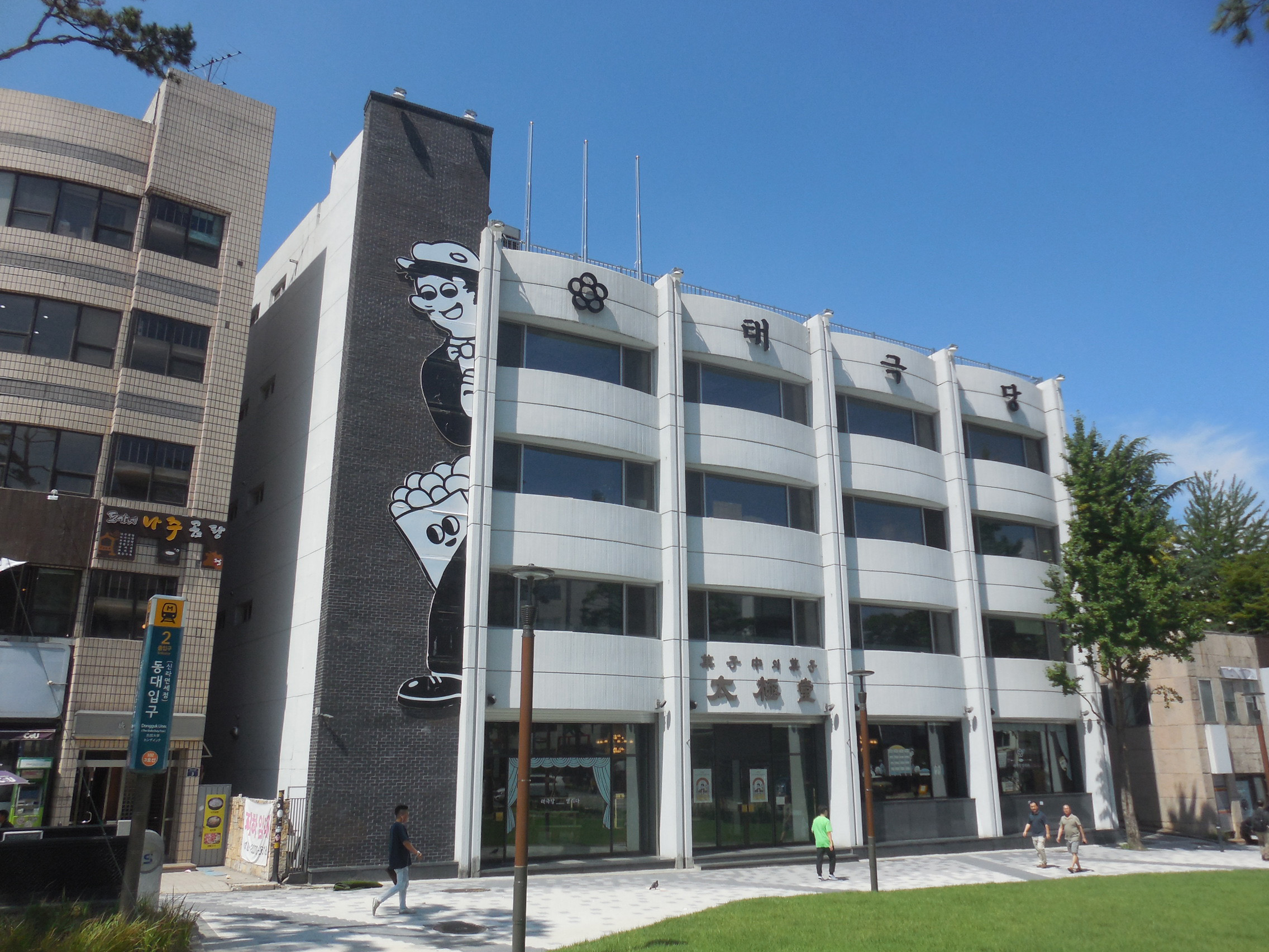 Building of Taegeukdang, the oldest bakery in Seoul.